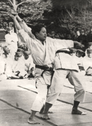 Jū-no-Kata by Katsuko Kosaki (1943)